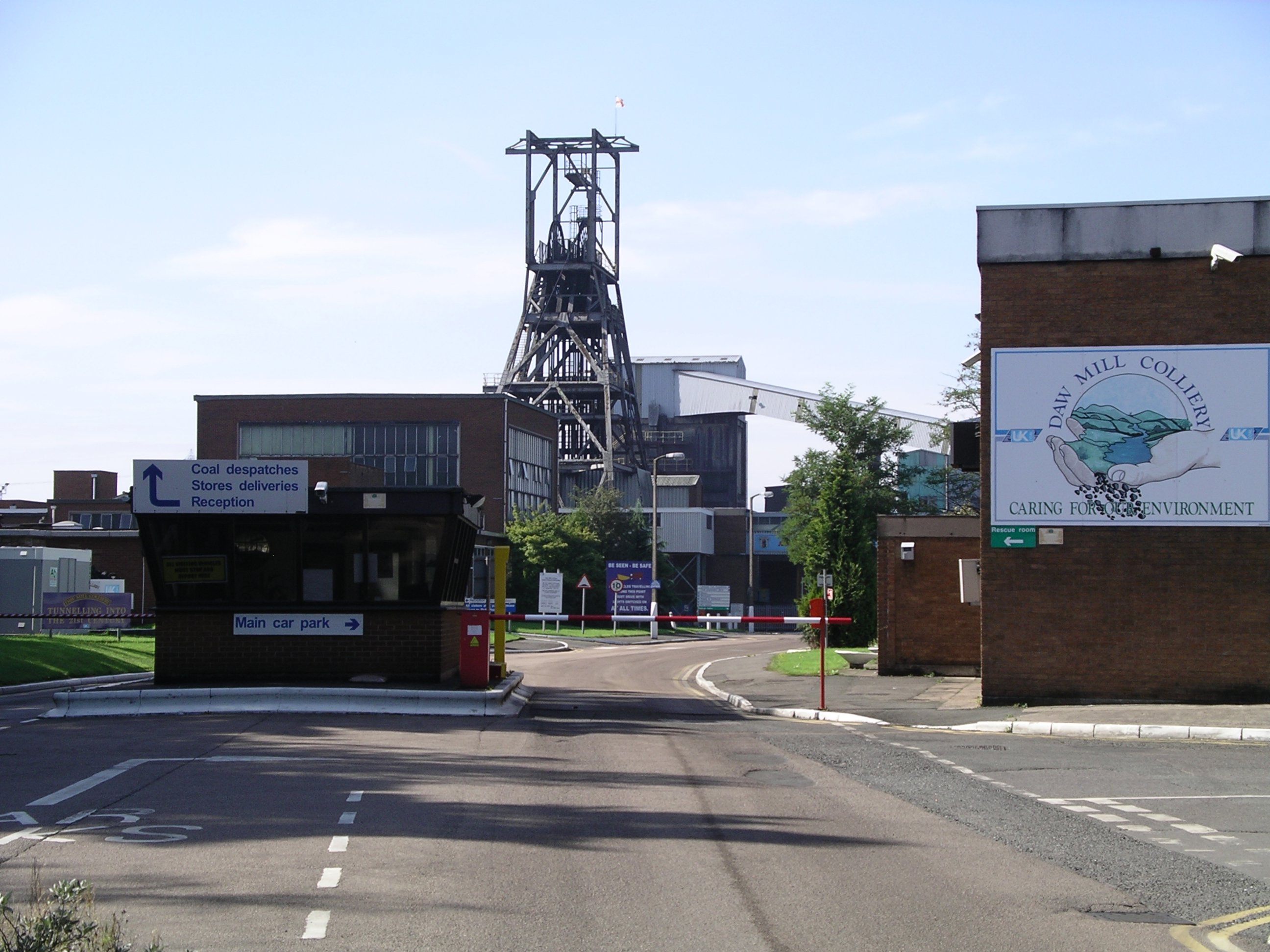 Photo taken on 17 September 2006 of Daw Mill Colliery, Warwickshire, England from the main road.